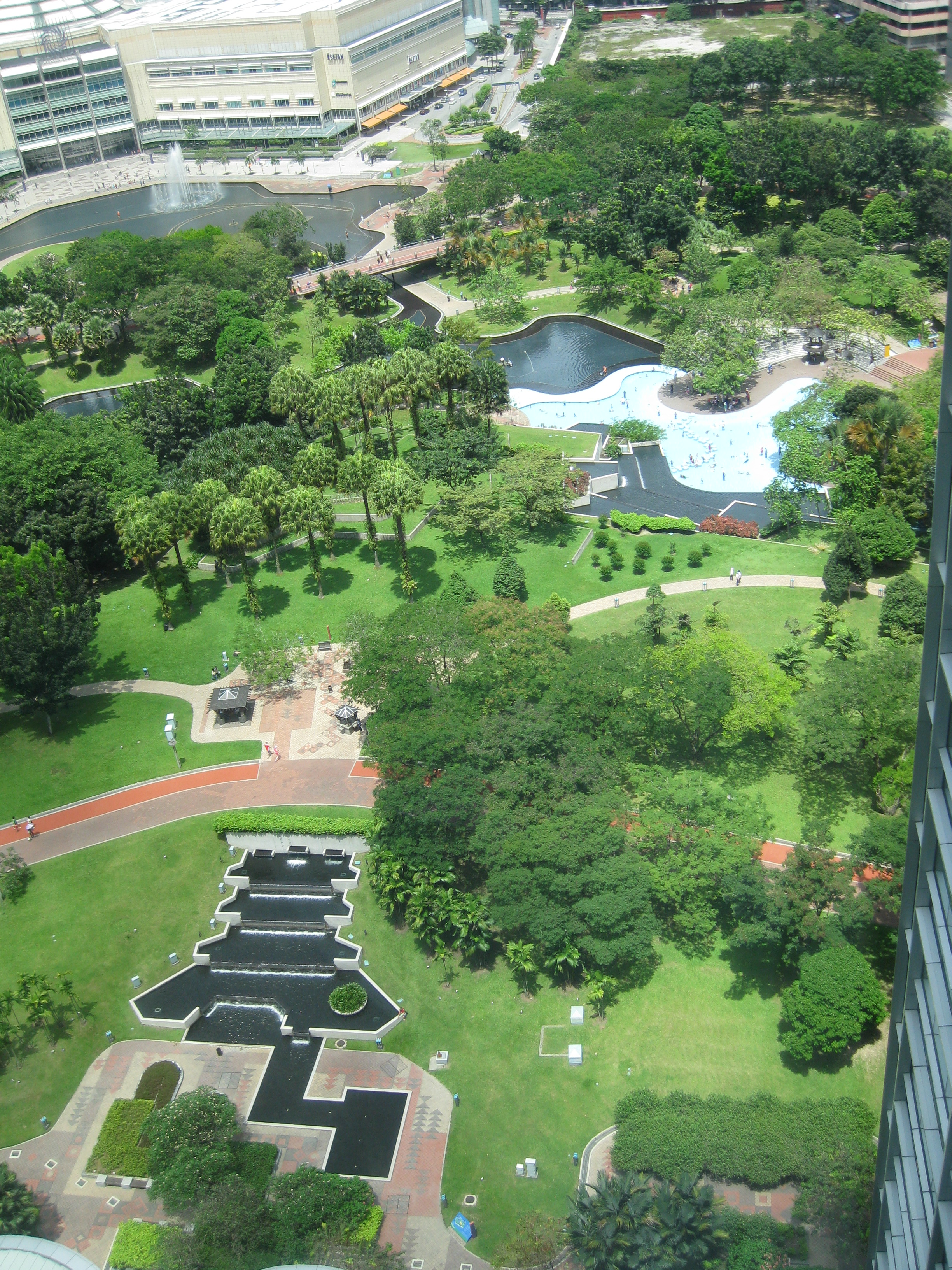 KLCC Park, Kuala Lumpur, Malaysia. Viewed from Traders Hotel